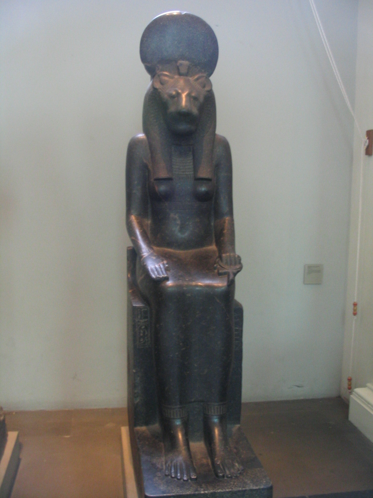 Sekhmet statue kept in the British Museum, London.